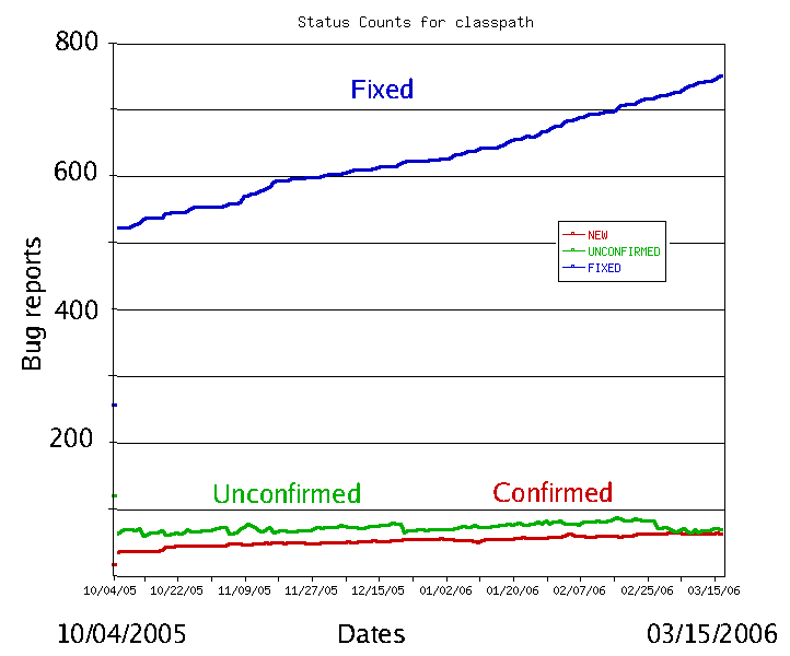 Bug tracking sample from GNU Classpath project.